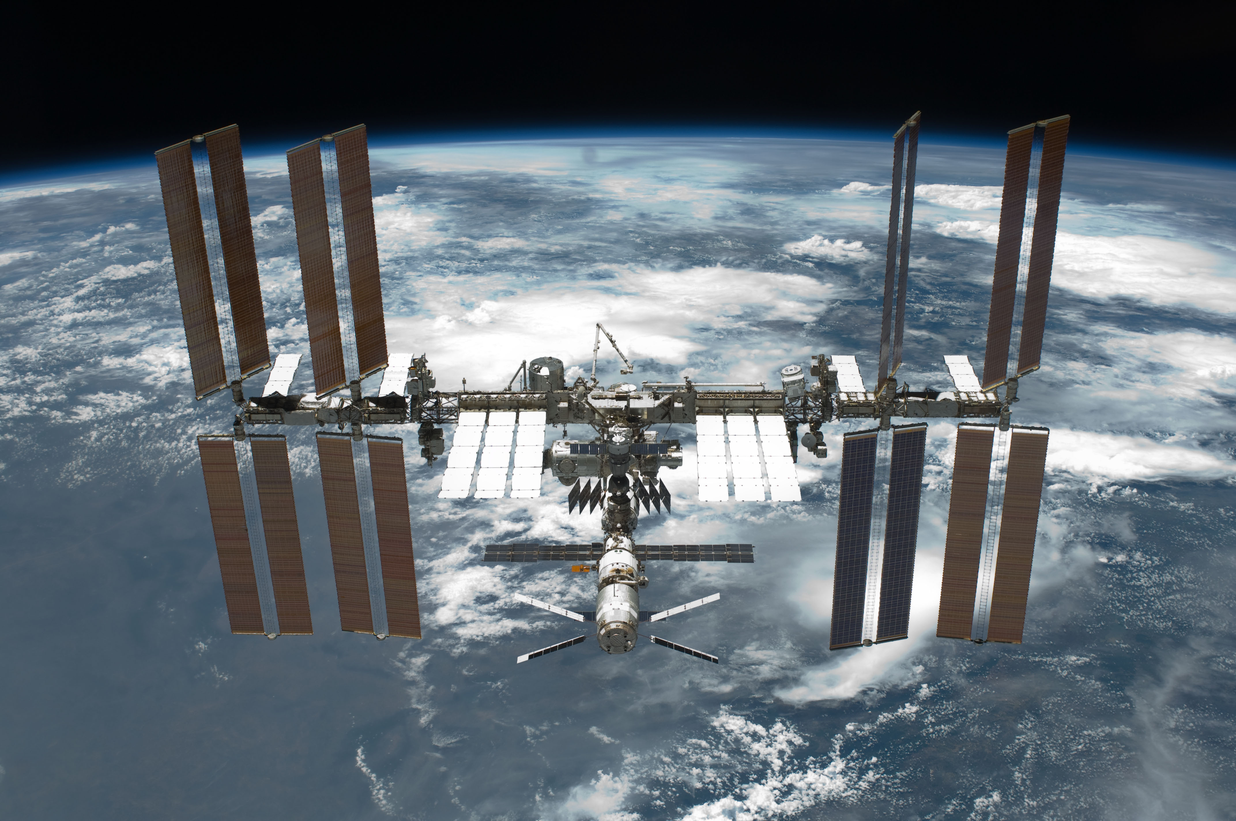 The International Space Station is featured in this image photographed by an STS-134 crew member on the space shuttle Endeavour after the station and shuttle began their post-undocking relative separation. Undocking of the two spacecraft occurred at 11:55 p.m. (EDT) on May 29, 2011. Endeavour spent 11 days, 17 hours and 41 minutes attached to the orbiting laboratory.